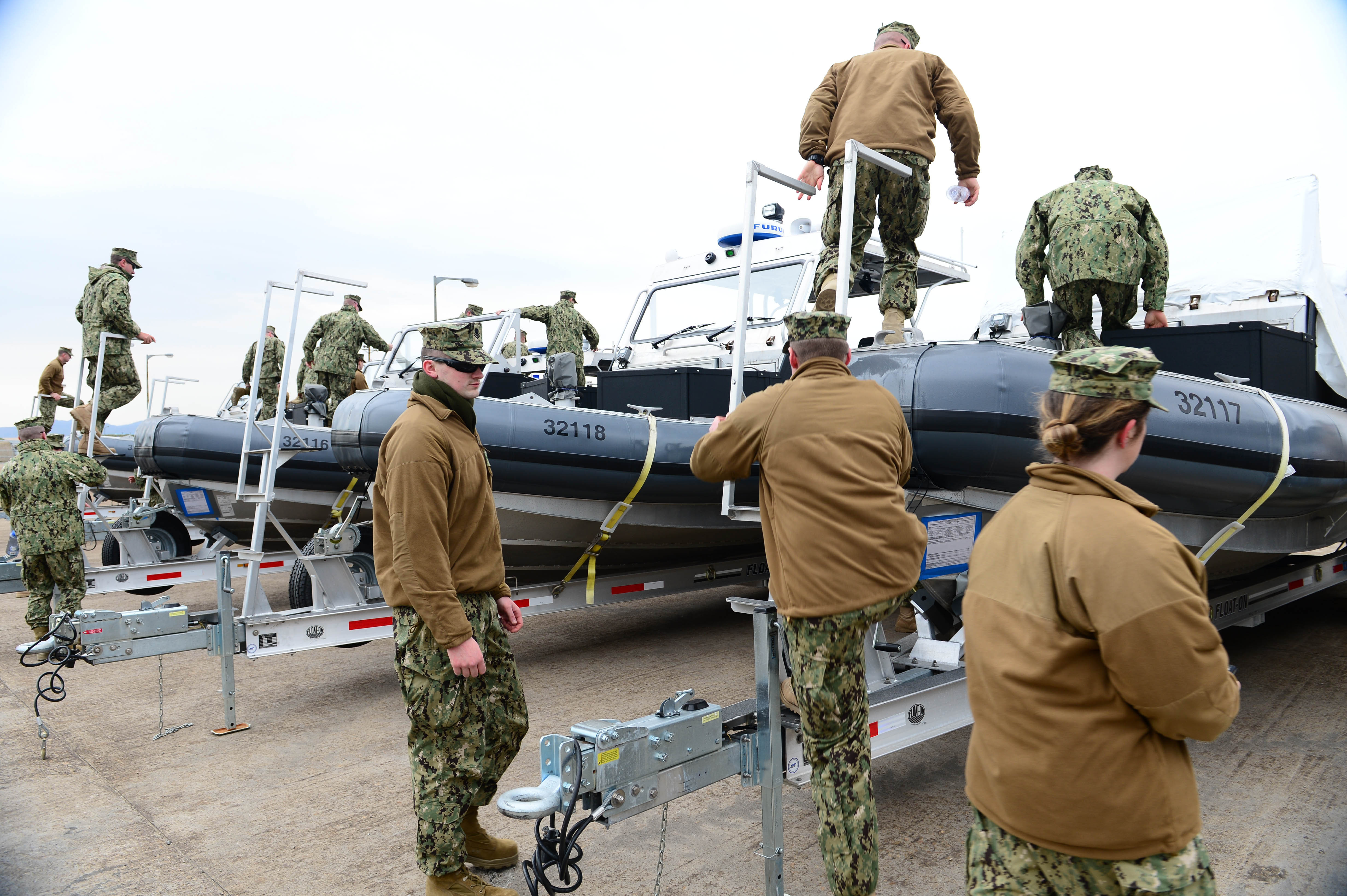 Crewmembers of Coast Guard Port Security Unit 313 from Everett, Wash., climb aboard six, fourth generation, 32-foot, transportable security boats to prepare the vessels for a Combined Joint Logistics Over-the-Shore Exercise (CJLOTS), April 15, 2013. PSUs deploy to conduct port security and defense operations in support of combatant commands by providing waterborne and land-based anti-terrorism force protection. (U.S. Coast Guard photo by Petty Officer 2nd Class Etta Smith/Released) Unit: U.S. Coast Guard Recruiting Command DVIDS Tags: security; U.S. Coast Guard; Korea; South Korea; USCG; reserve; Joint Exercise; PSU; combined exercise; force protection; reservists; ROK; Military; Republic of Korea; Foal Eagle; training; enforcement; Korean peninsula; operational; deployable; PSU 313; Port Security Unit; CJLOTS; over-the-shore exercise; KTO; Korean Theater of Operations; COMBINED JOINT LOGISTICS OVER-THE-SHORE EXERCISE